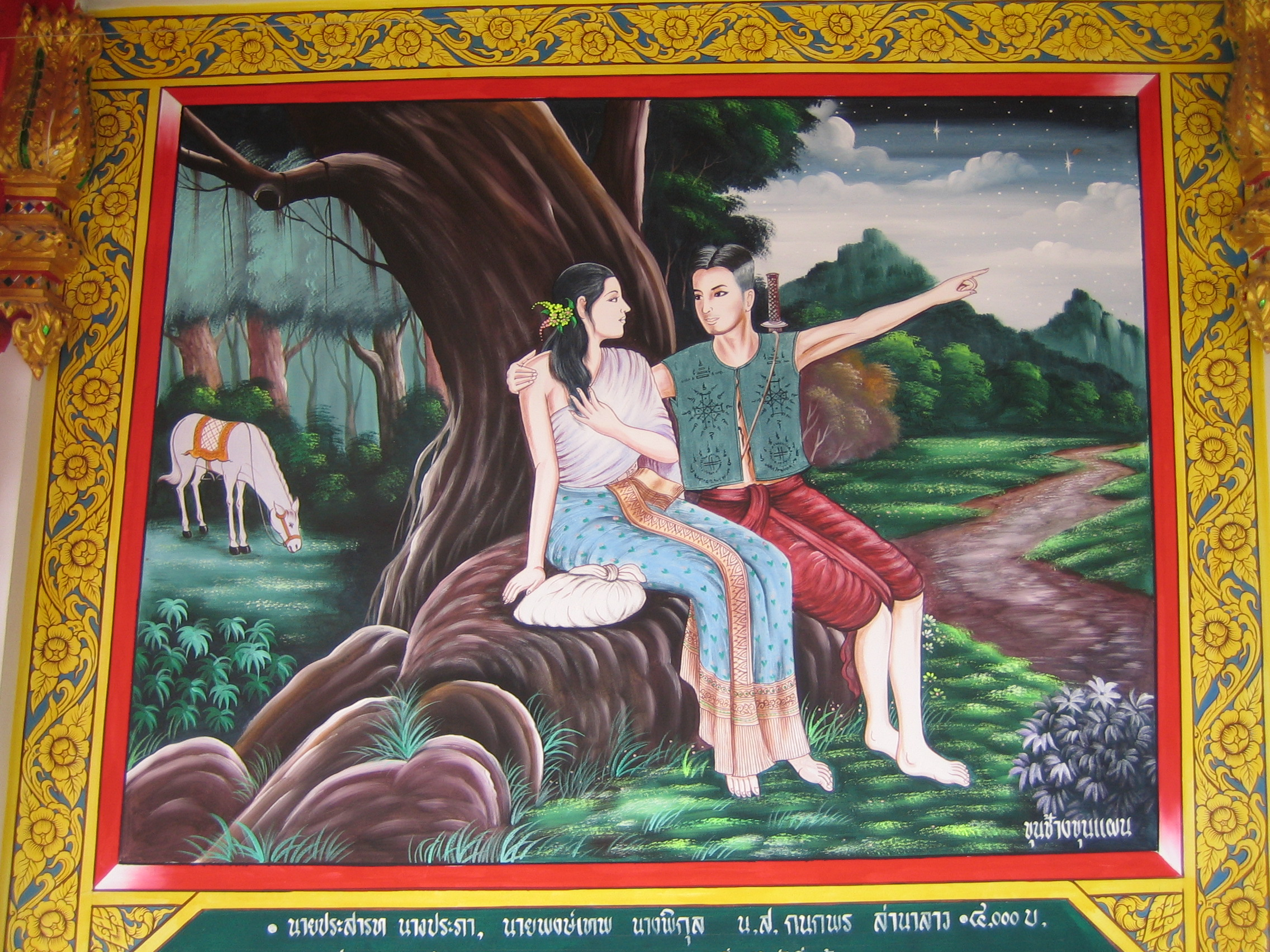 Mural in sala on Khao Phra, U Thong, Suphanburi, Thailand